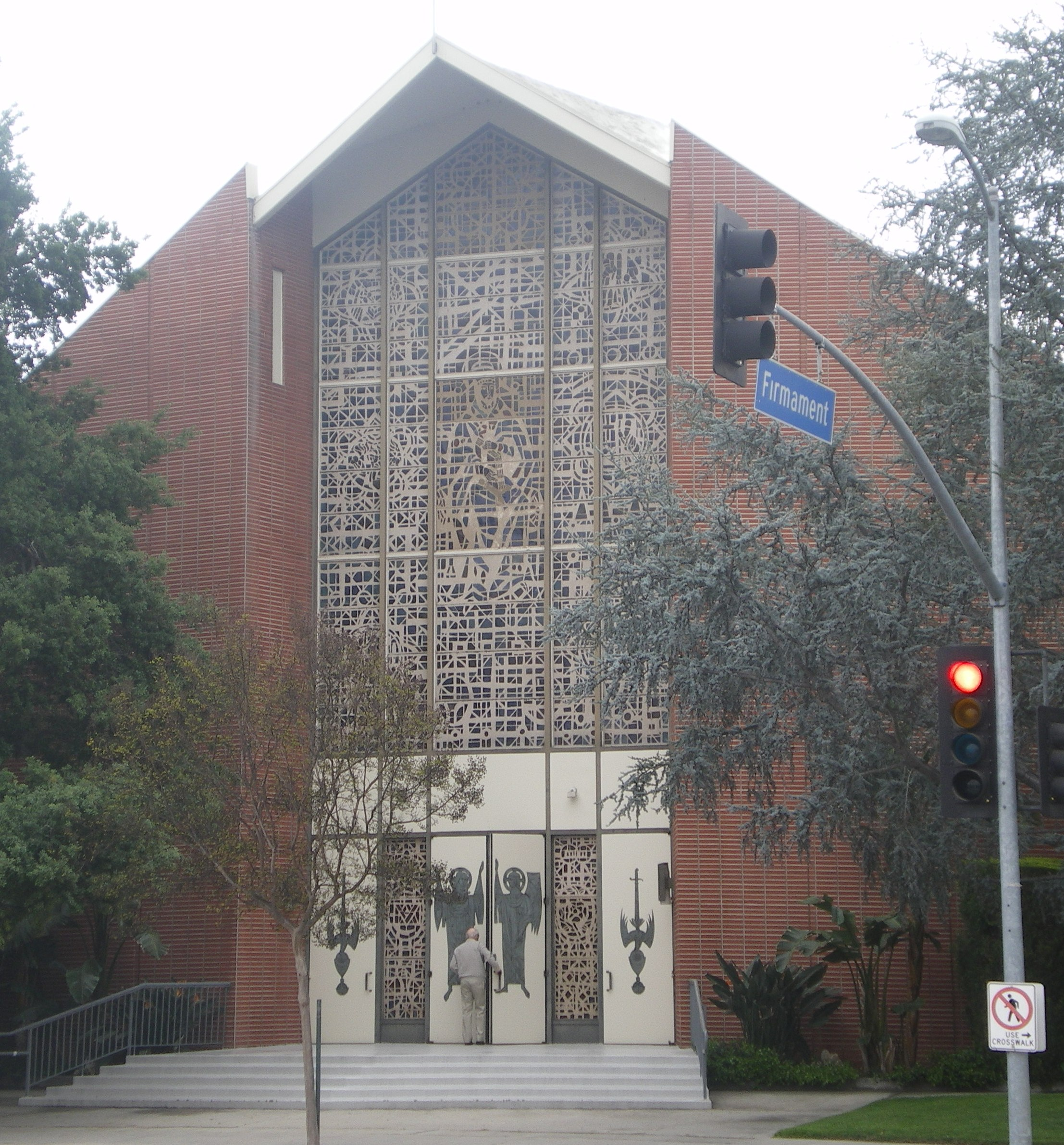 St. Cyril of Jerusalem Church, Ventura & Firmament, Encino, Los Angeles, California Ventura & Firmament, Encino, Los Angeles, California